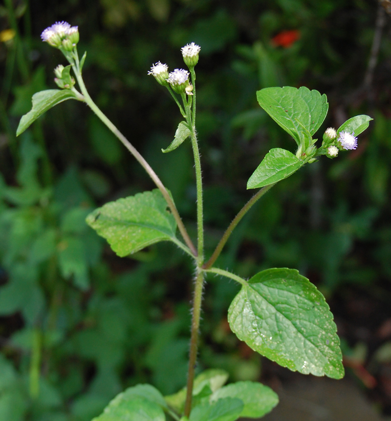 Billygoat weed, Ageratum conyzoides. Darmaga, Bogor, West Java.